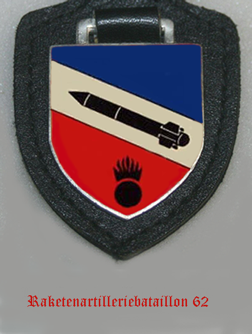 Internal coat of arms Raketenartilleriebataillon 62 (RakArtBtl 62) of the Bundeswehr (Armed Forces of the Federal Republic of Germany). → Remarks on naming and categorization scheme